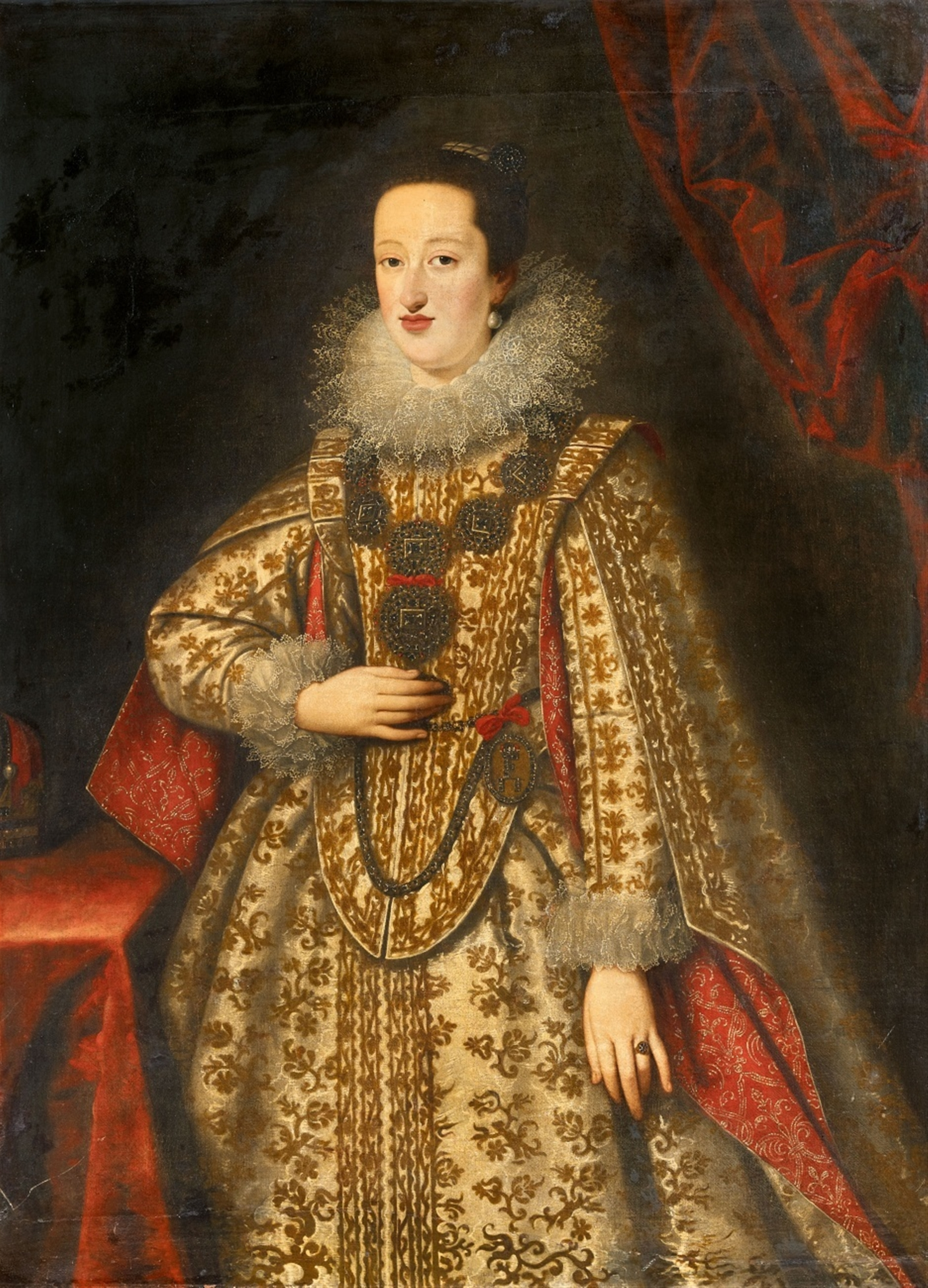 Caption from the auctioneers website Eleonora Gonzaga, the youngest daughter of Duke Vincenzo Gonzaga I of Mantua and his wife Eleonore de' Medici, was born in 1598. In 1622, she married Ferdinand II of the House of Habsburg, who had been crowned Holy Roman Emperor just three years previously. Despite the fact that Ferdinand's marriage to his previous wife, the deceased Maria Anna of Bavaria, had produced seven children, his marriage to Eleonora Gonzaga remained barren. Eleonora passed away in 1655 and was buried in the Carmelite Abbey in Vienna before being transferred to St. Stephan's Cathedral in 1782. This imposing three-quarter length portrait depicts Eleonore Gonzaga in an intricate courtly gown of pale brocade trimmed with Venetian lace and with opulent jewellery. The empress wears a medallion with her husband's initials “F II.” pinned to the red sash around her waist, and the Austrian Imperial crown rests on the table beside her. The drapery in the upper right provides a further symbol of her majesty whilst simultaneously forming a compositional counterpart to the red of the tablecloth. The predecessor to this portrait was carried out by Sustermans himself in 1621 and is today housed in the Kunsthistorisches Museum in Vienna. In this work, a small dog takes the place of the Imperial crown, as the work was painted before Eleonora and Ferdinand were married.